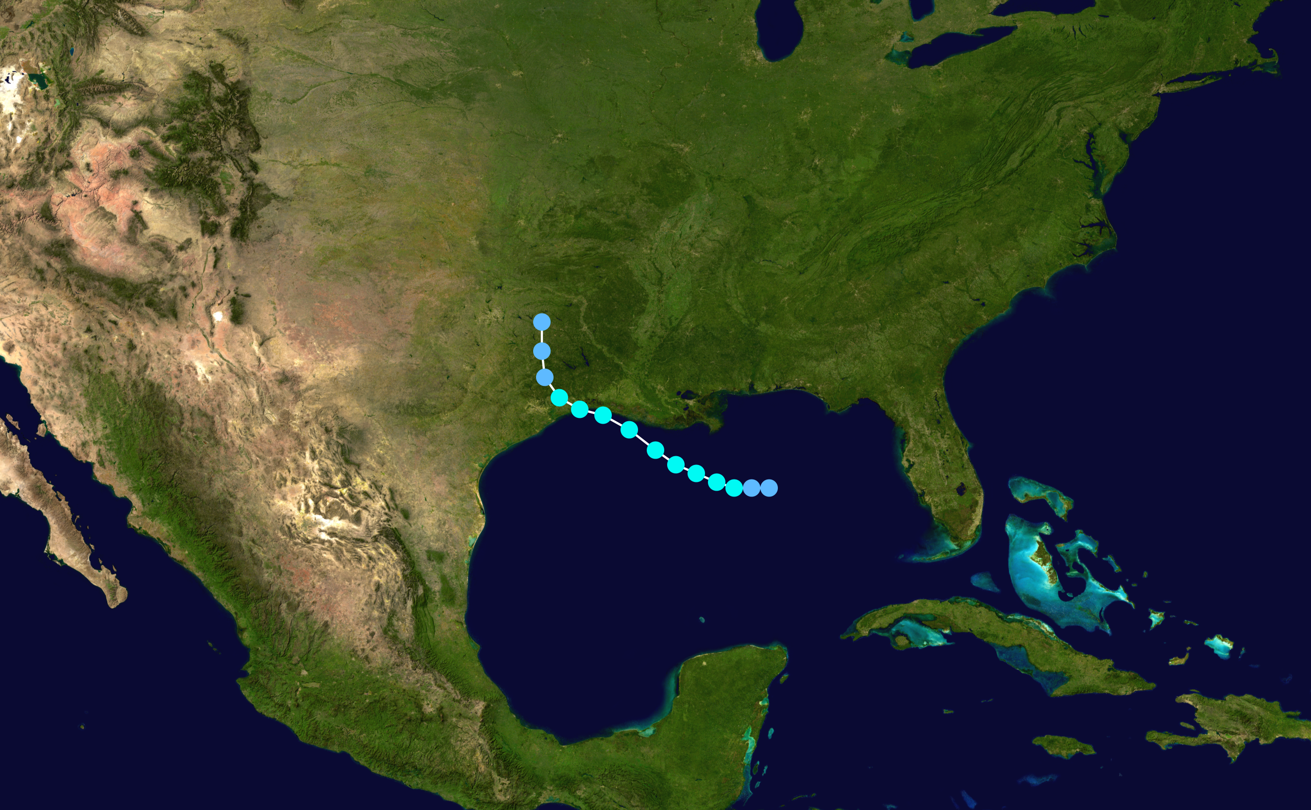 Tropical Storm Bertha (1957) track. Uses the color scheme from the Saffir-Simpson Hurricane Scale.